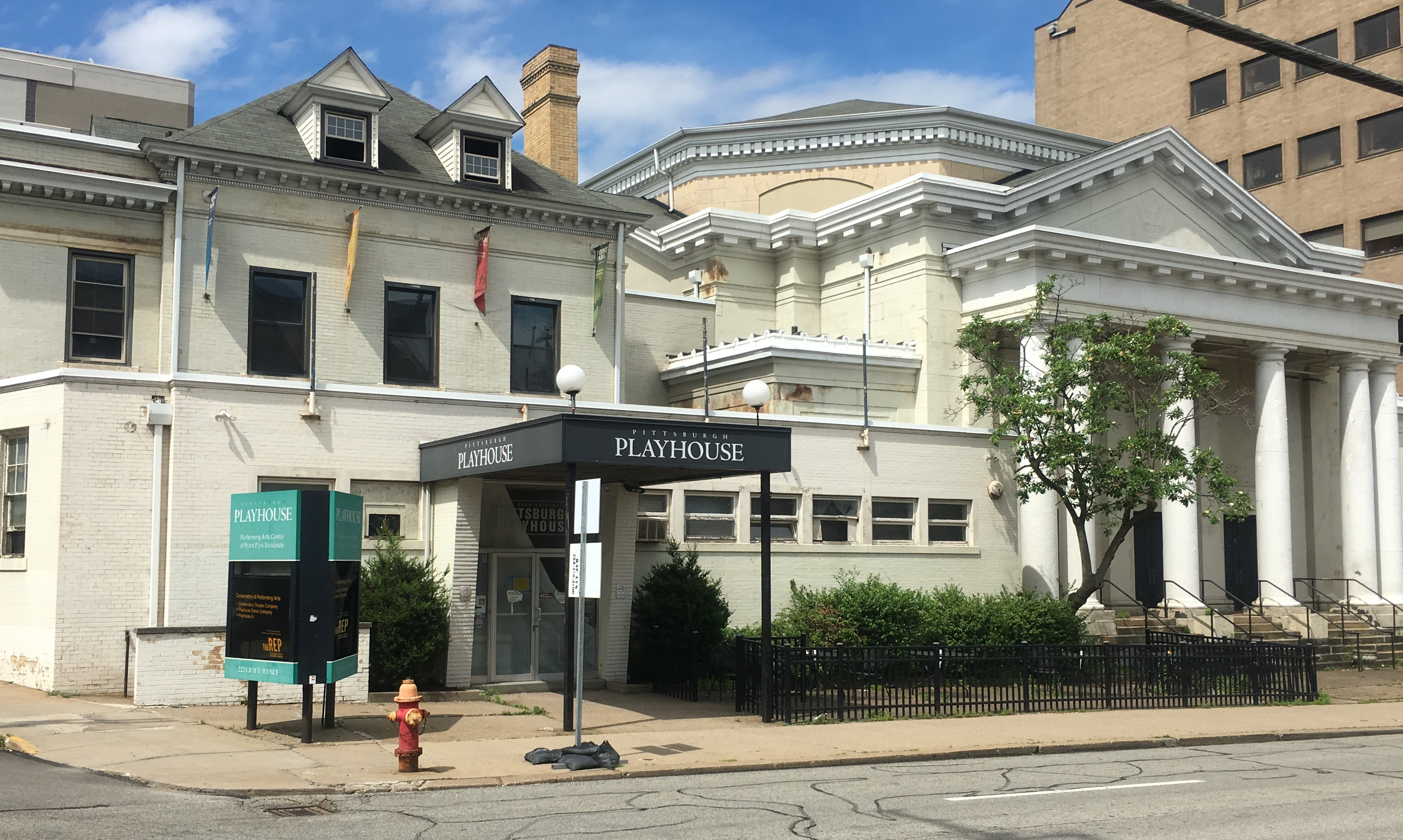 Pittsburgh Playhouse theater on Craft Avenue in Pittsburgh, Pennsylvania